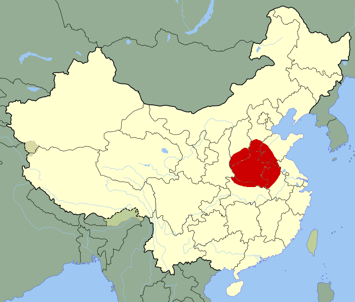 map of Central Plain